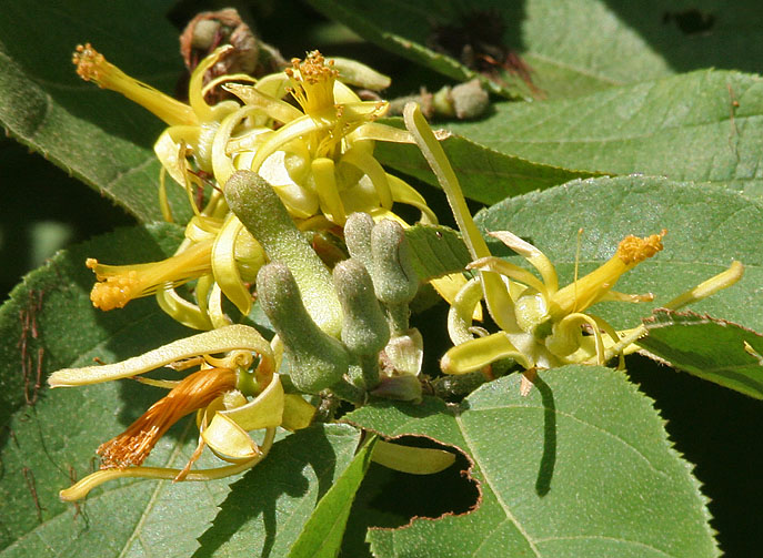 Khatkhati or Sandpaper Raisin Grewia flavescens in Hyderabad , India.